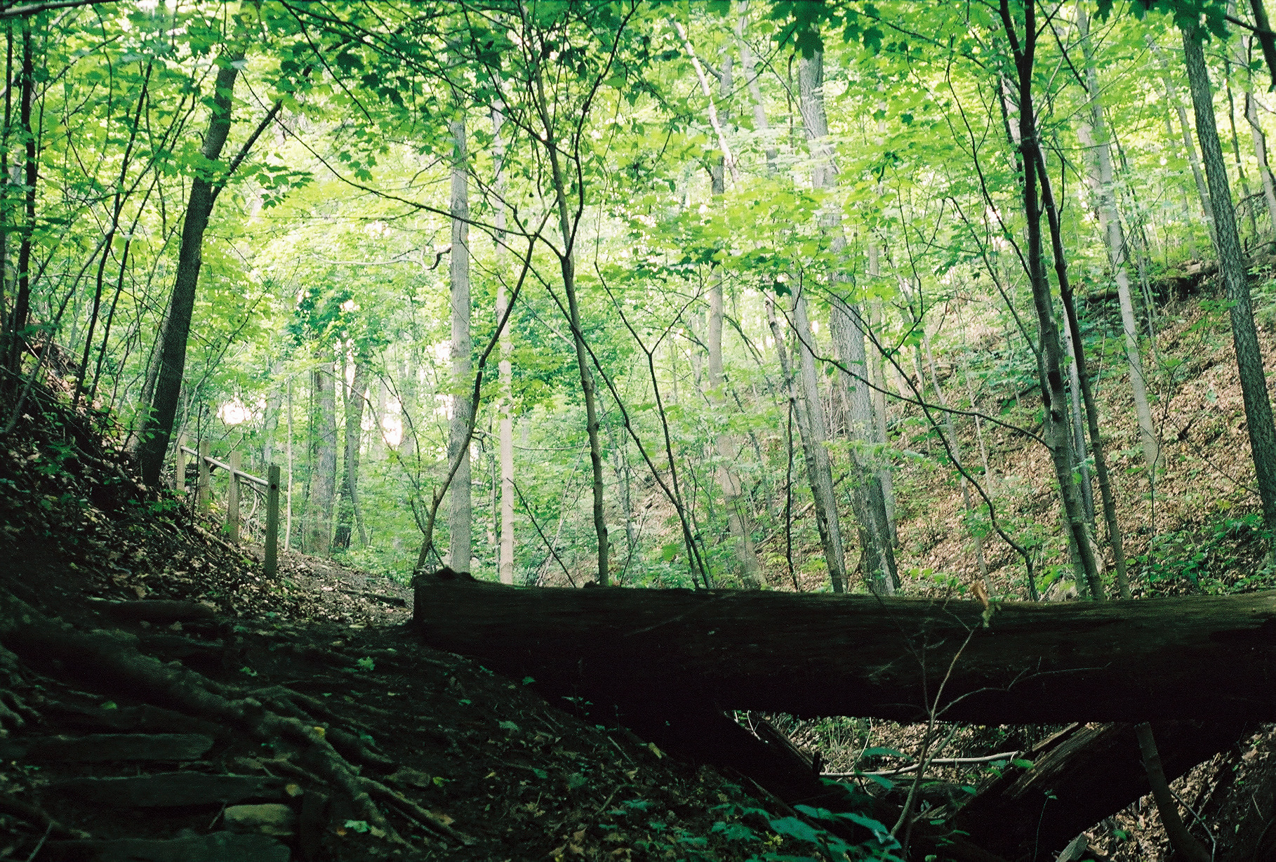 Trail inside Core Arboretum; Morgantown, West Virginia